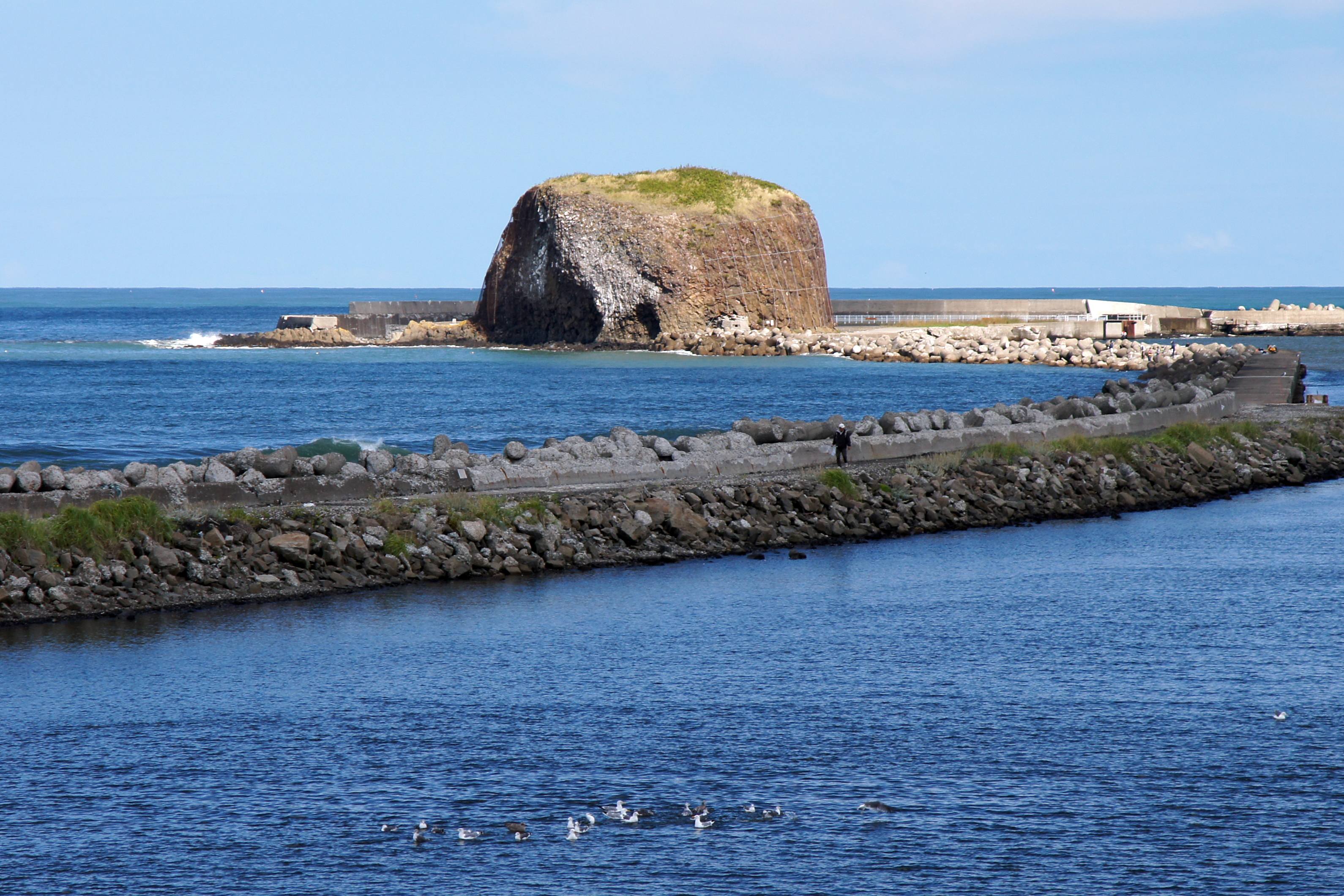 Boshi-iwa (Boshi Rock) in Abashiri, Hokkaido prefecture, Japan